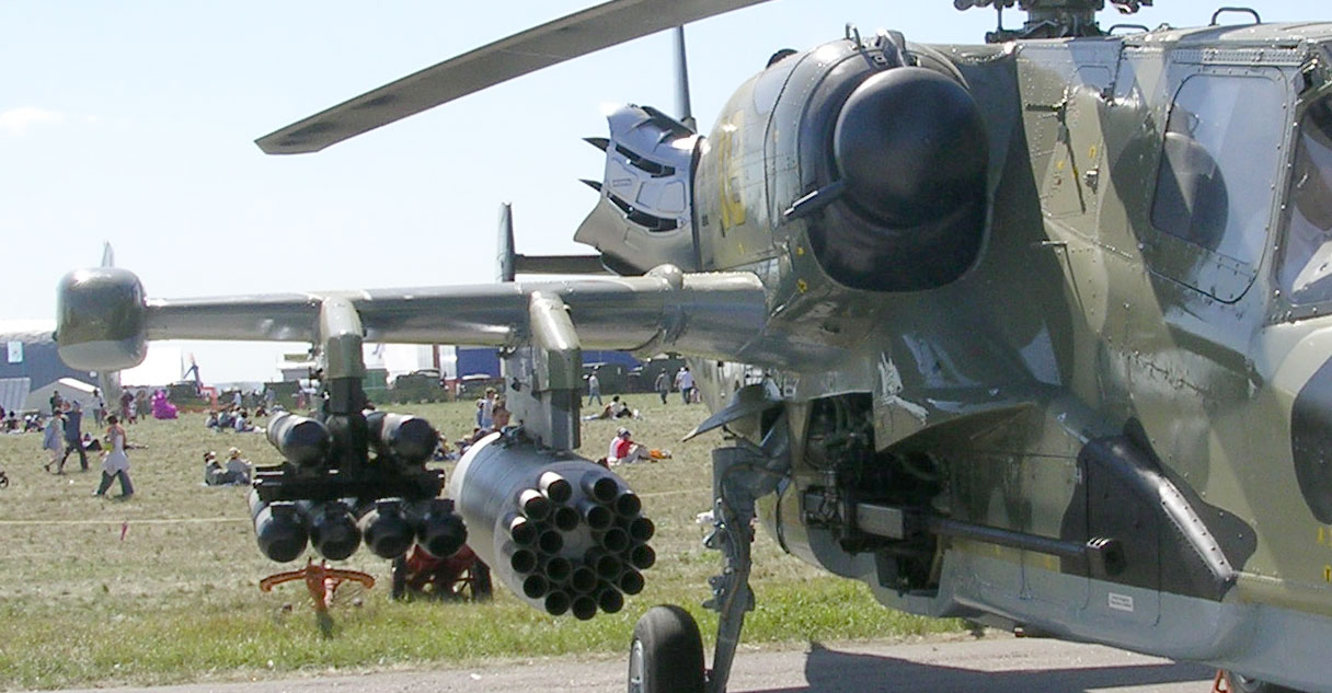 Ka-50 weapon system